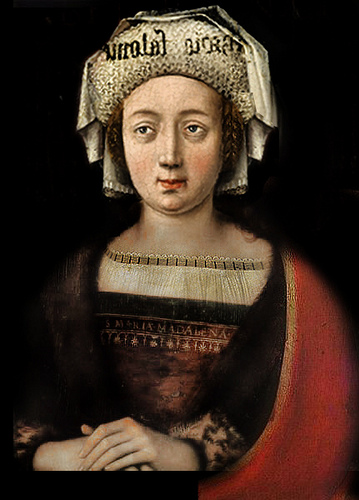 Depiction of Joanna of Castile, Queen of Portugal